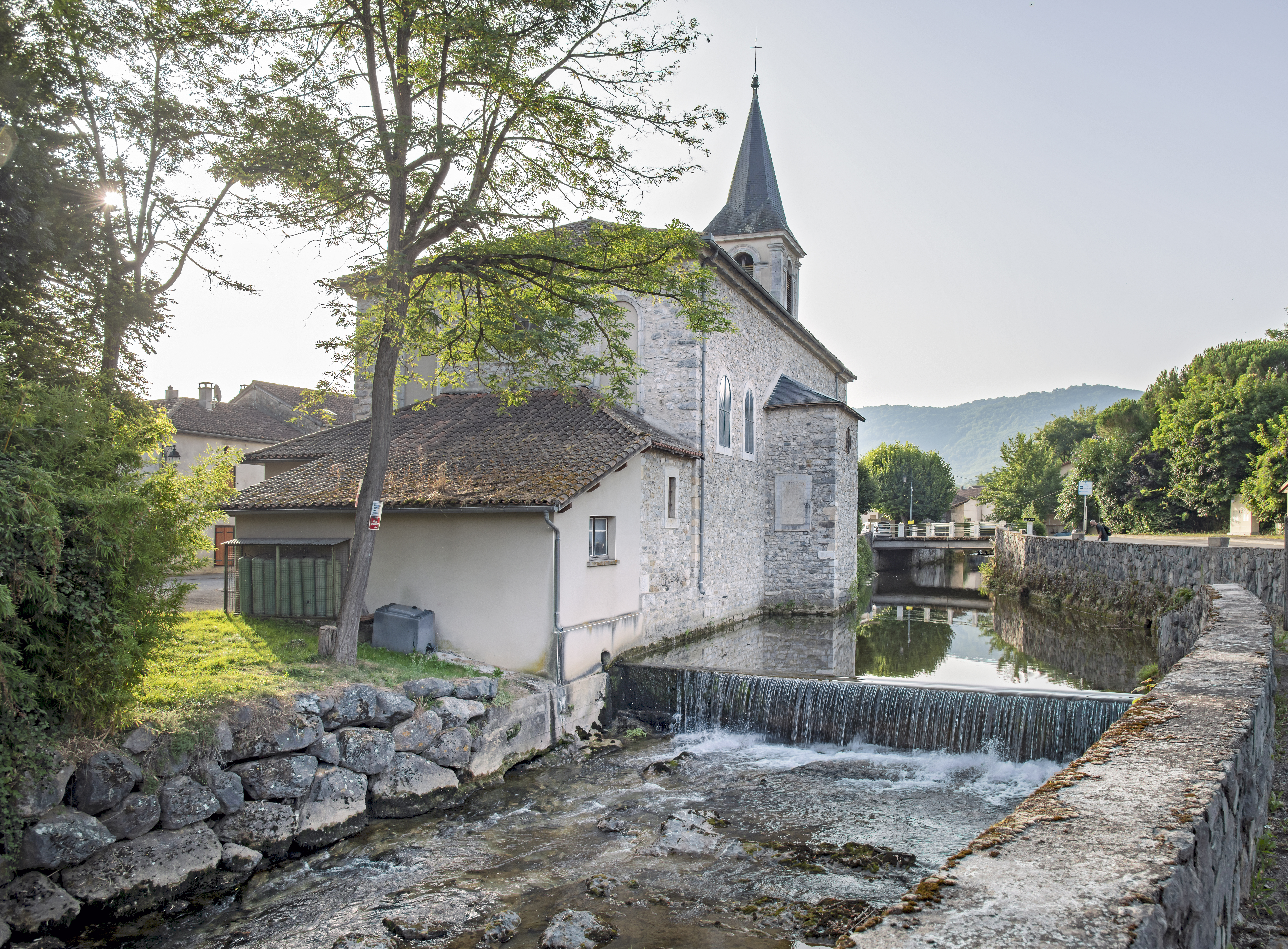 The river Job in Izaut-de-l'Hôtel, Haute-Garonne, France.